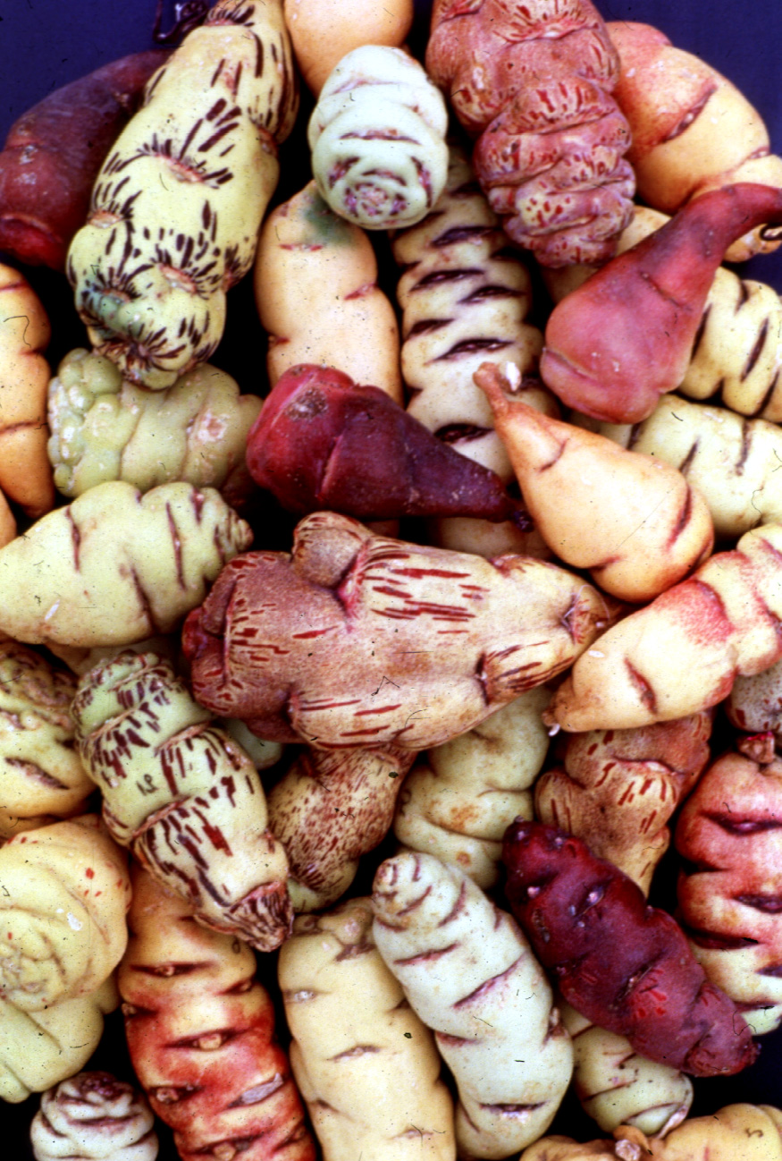 Sample of clonally propagated mashua cultivars, in Peru (1990s).